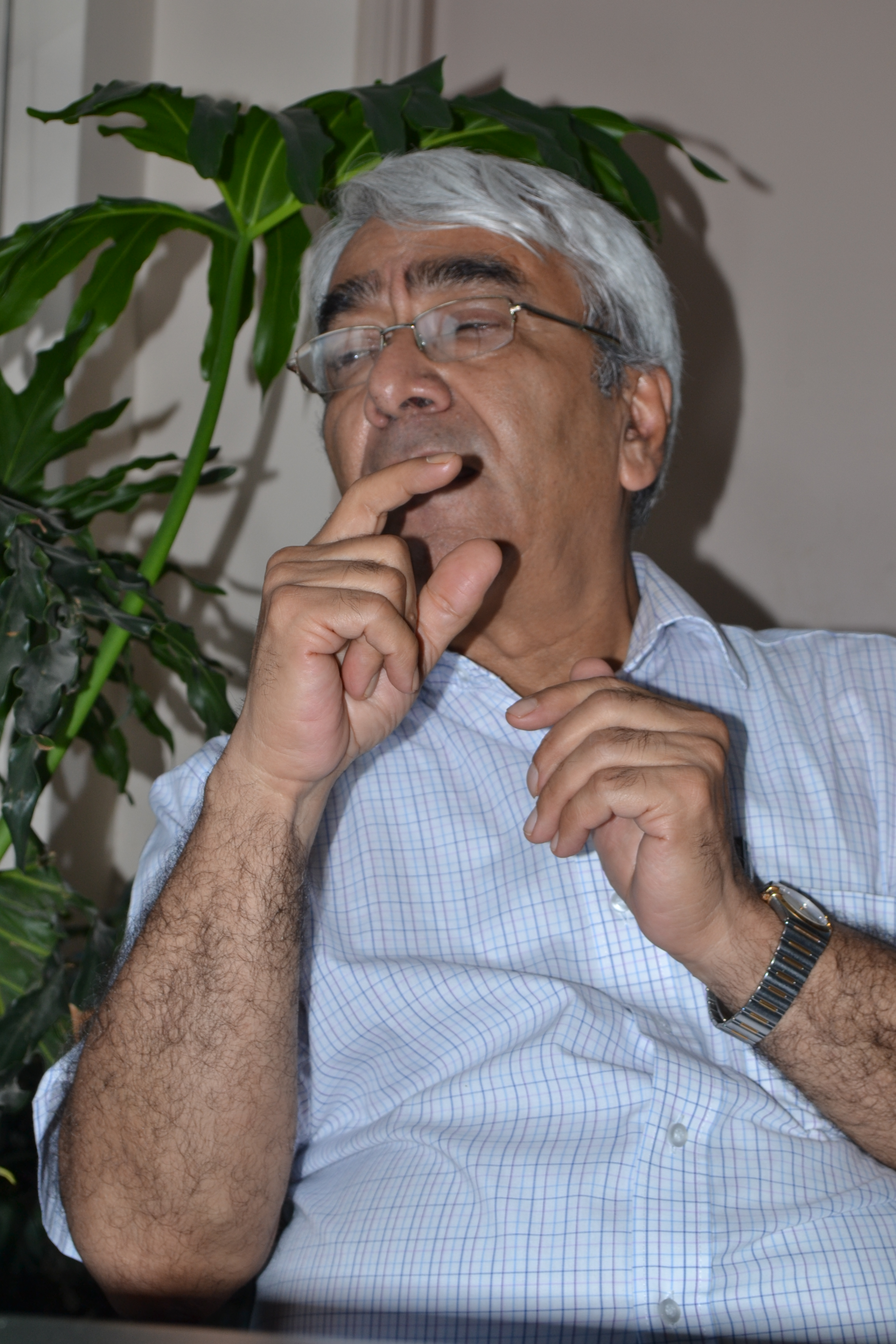 Da.Bhola Rijal at Om Hospital in Kathmandu